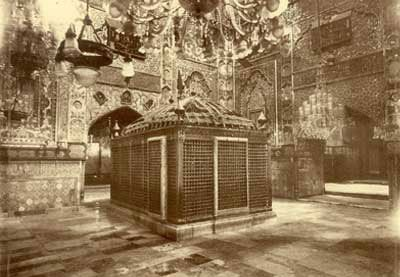 Imam Reza's Sanctuary old pics